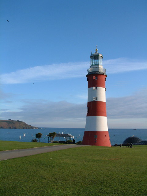 Lighthouse on Plymouth Hoe.